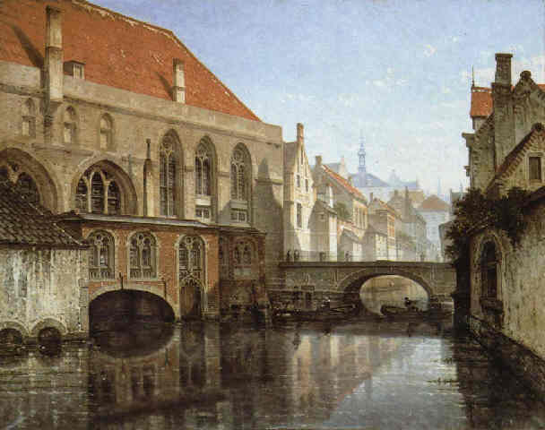 Gezicht aan het oud Sint-Janshopitaal te Brugge, Oil on Canvas, 37.4 x 47.2 in. / 95 x 120 cm.